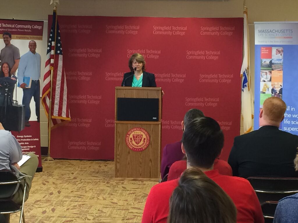 President Ellen Kennedy of Berkshire Community College speaking at Springfield Technical Community College.